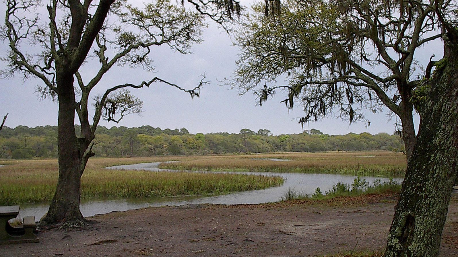 Inland marshes of Jekyll Island, Georgia. Taken in the Spring 2001.